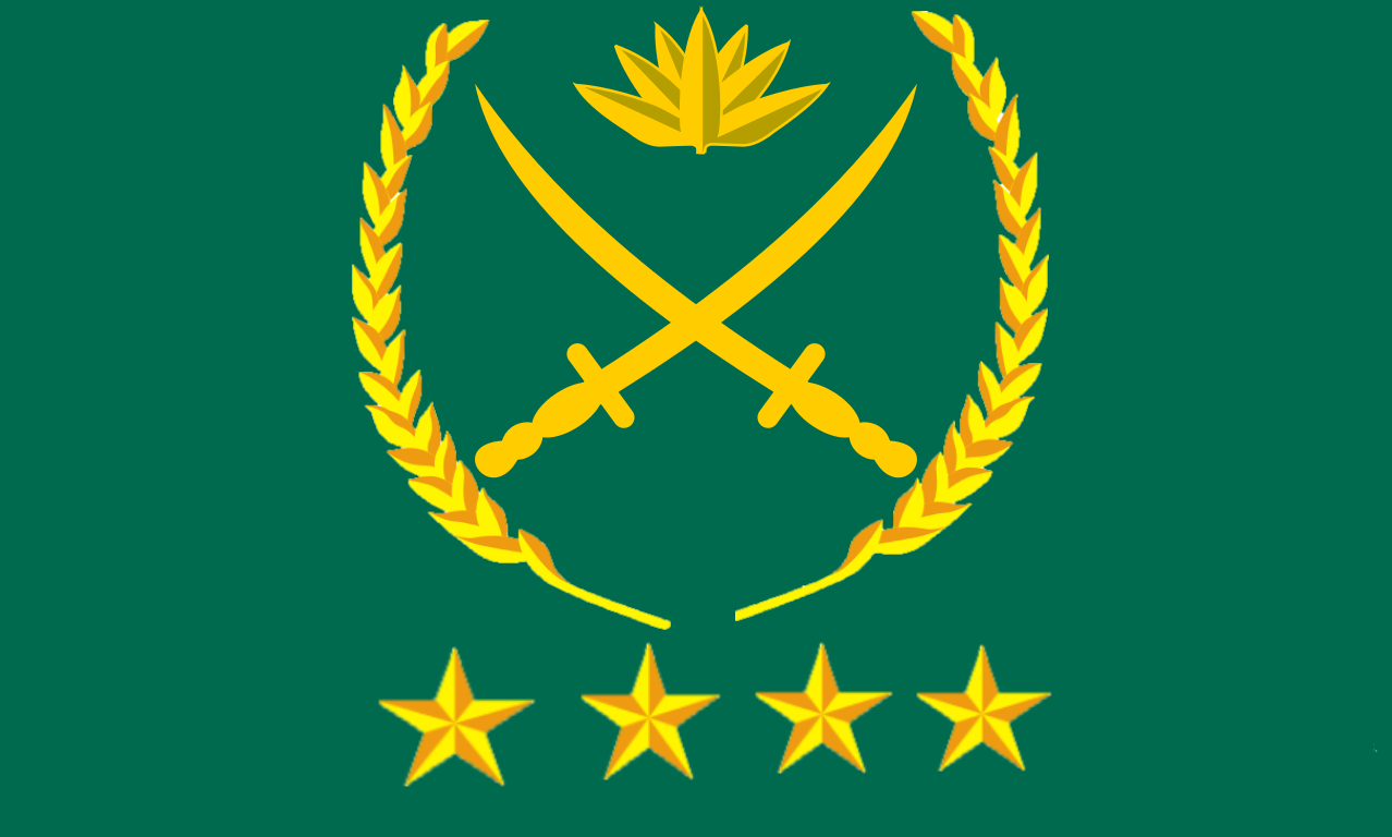 Flag of the Chief of Army Staff of Bangladesh Army